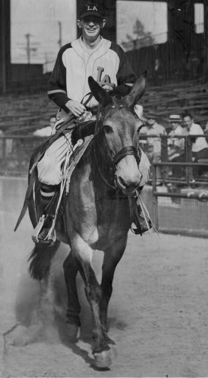 Professional baseball player Joe Berry on horseback before a game against the Portland Beavers in 1938.